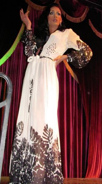 Raja Performing